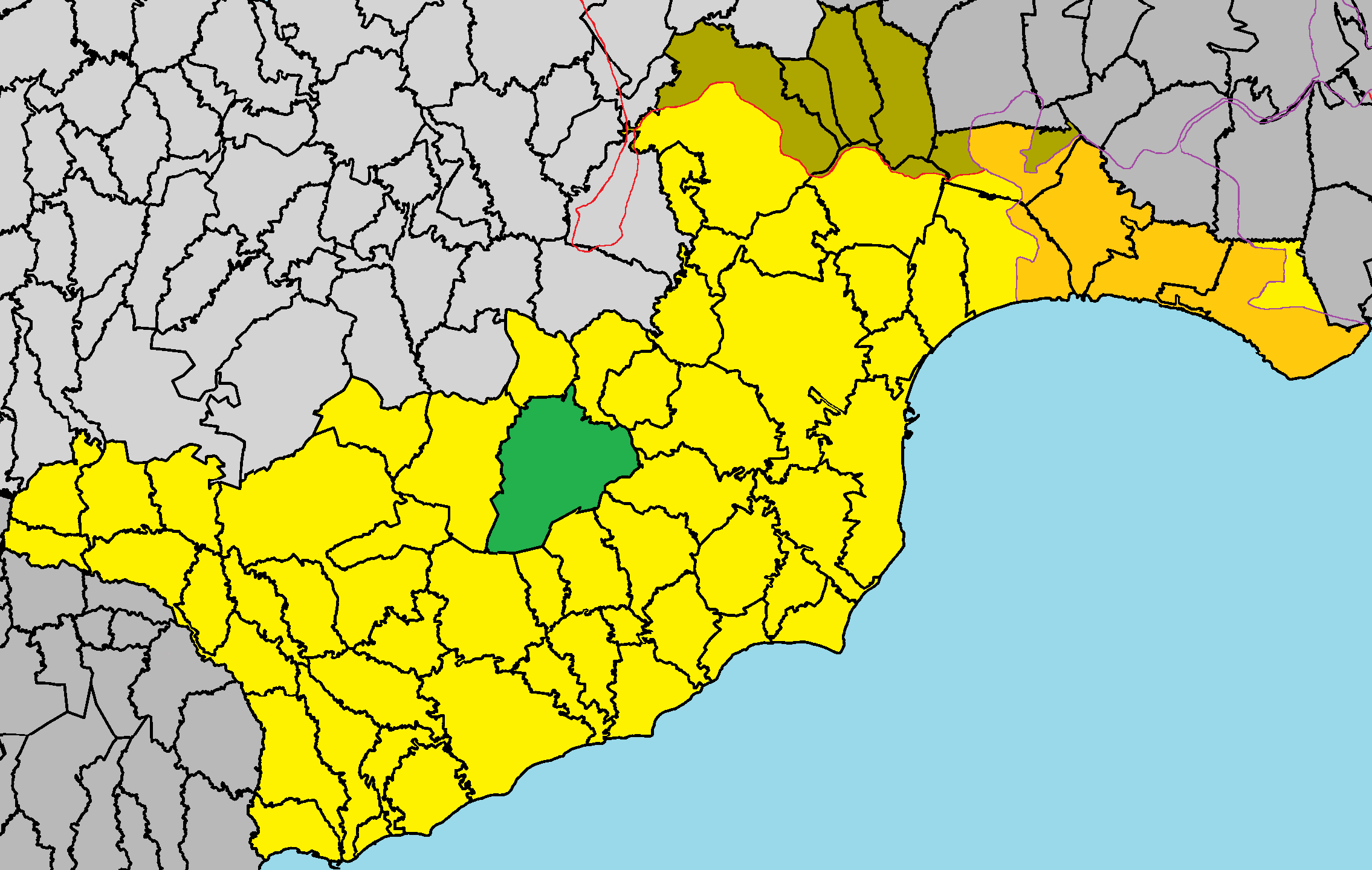 Pyrga in Larnaca District.